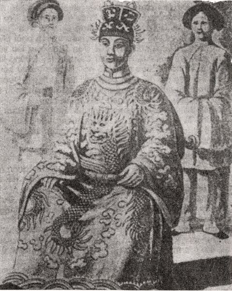 King Minh Mang as depicted in Journal of an Embassy to the Courts of Siam and Cochin-China, exhibiting a view of the actual State of these Kingdoms by John Crawfurd (1783-1868), London, 1828.